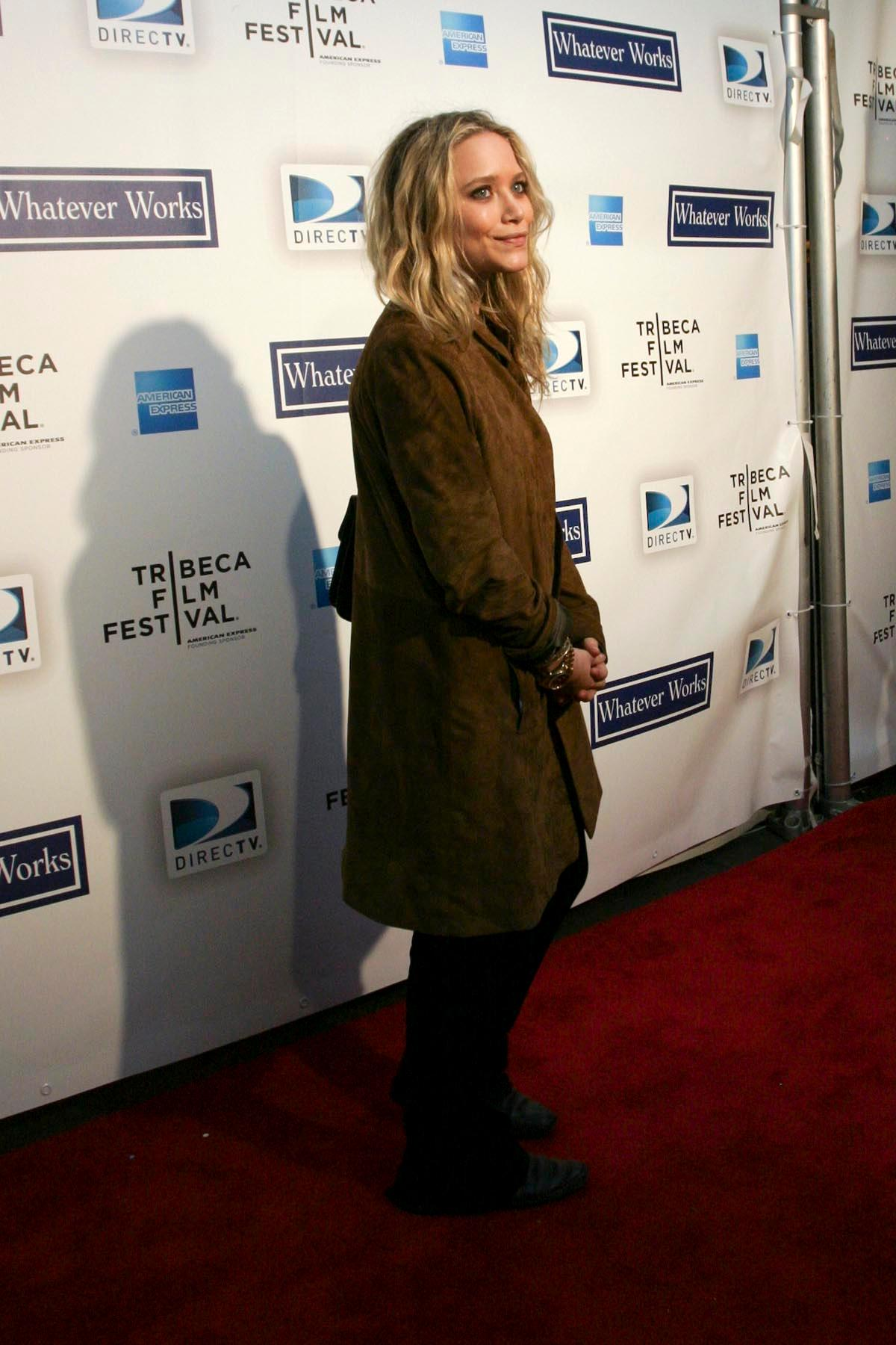 Mary-Kate Olsen – Tribeca Film Festival "Whatever Works" Premiere.